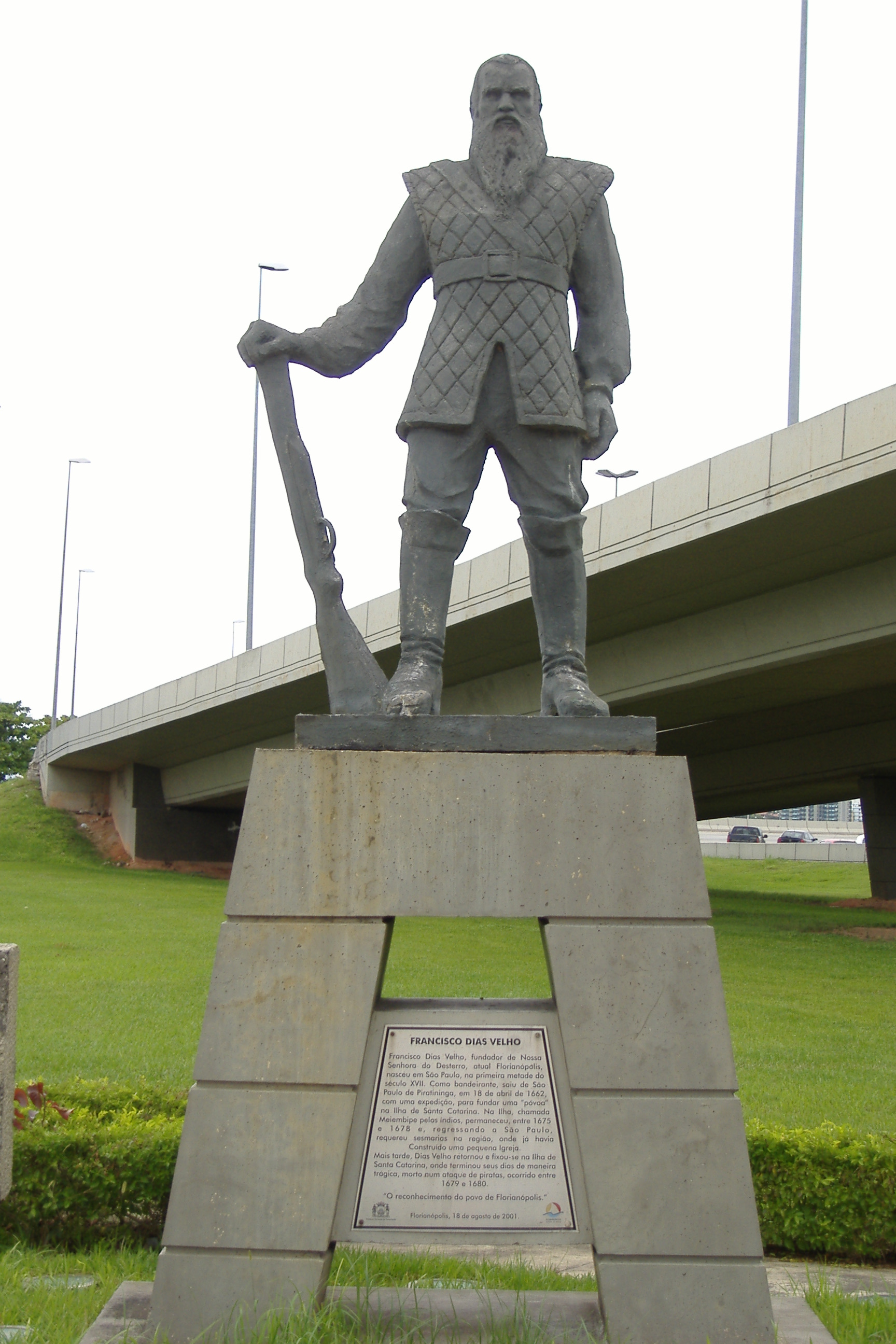 Monument to Francisco Dias Velho in Florianópolis (Brazil)